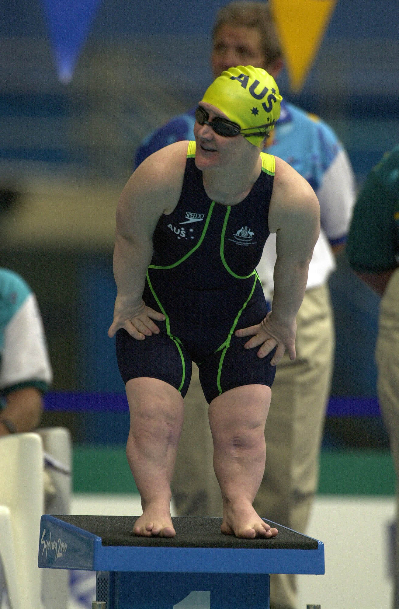 Australian swimmer Alicia Jenkins on the starting blocks at the 200m medley SM6 event, 2000 Sydney Paralympic Games, Day 02